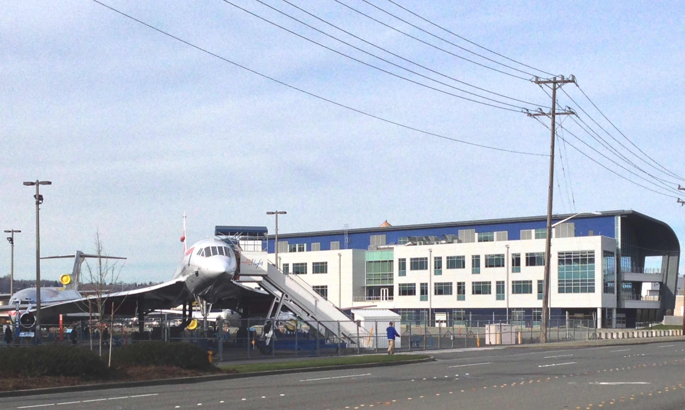 The MOF's Airpark with Raisbeck Aviation High School in the background, as seen from East Marginal Way.